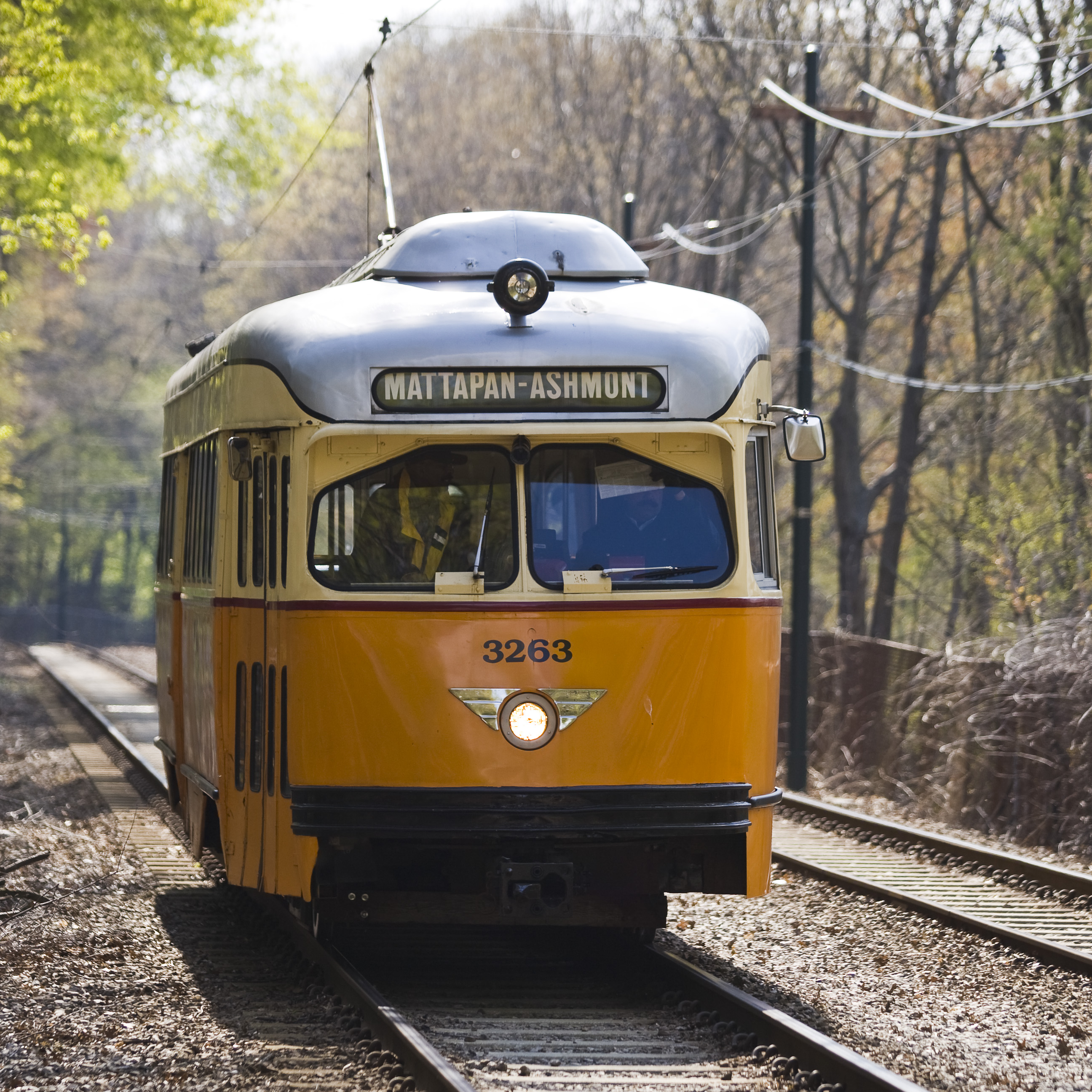 A restored PCC streetcar on the Ashmont–Mattapan High Speed Line of the MBTA, bound for Ashmont.